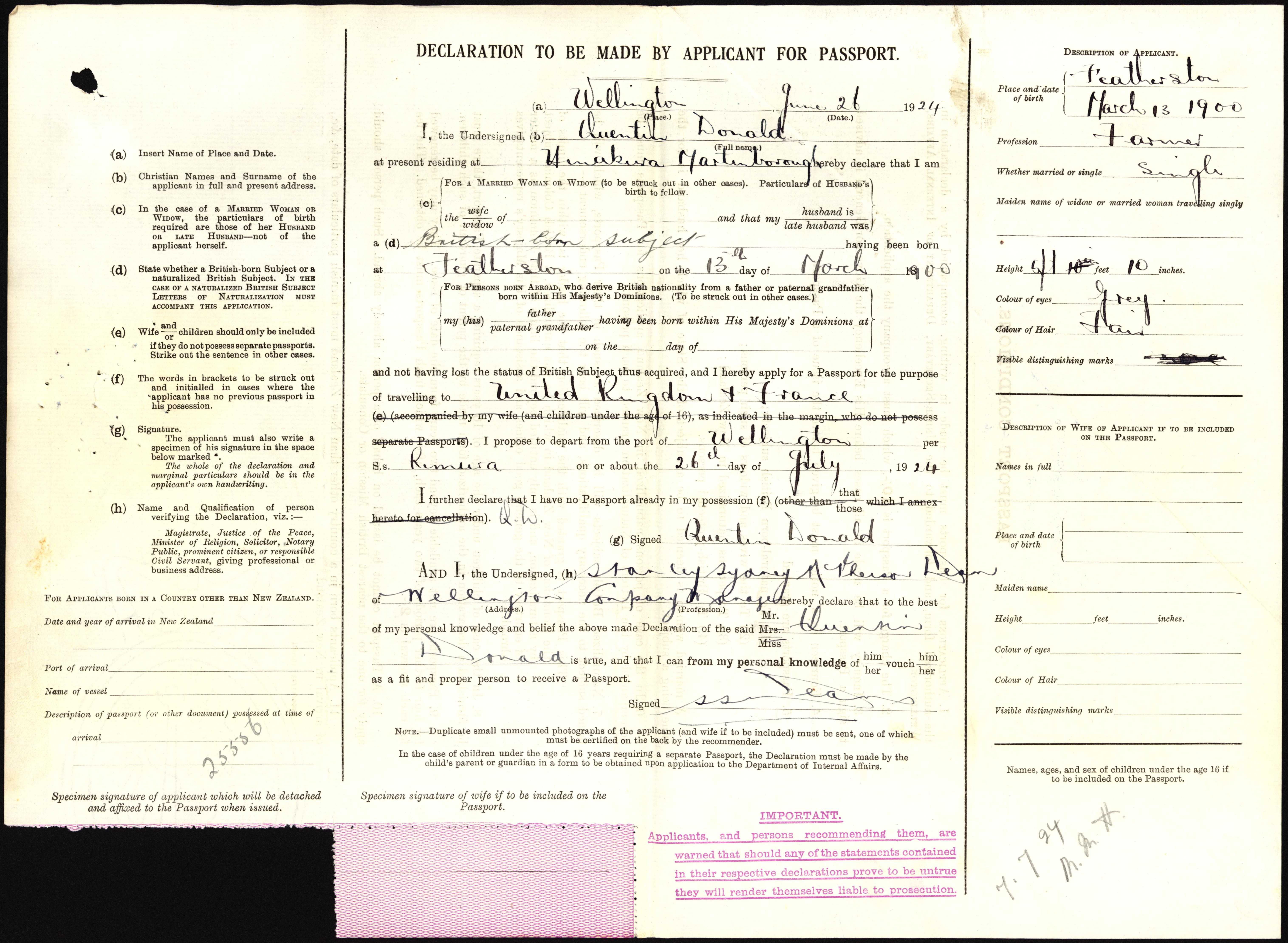 ACGO 8333 IA1 1349 / 15/11/17721 Quentin Donald passport application (1924)